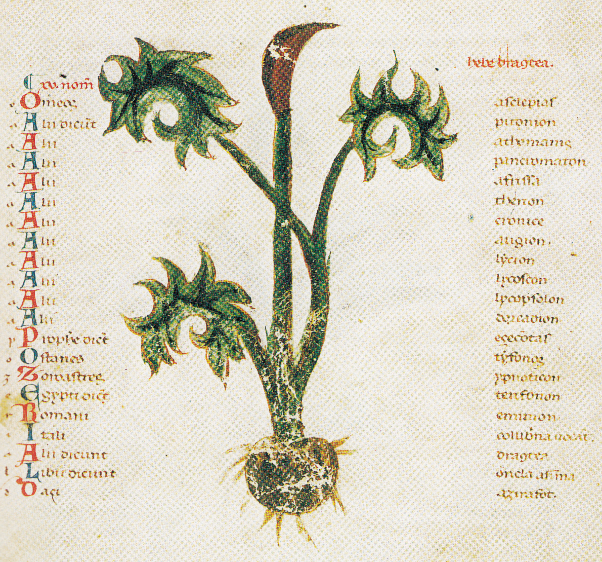 painting od dragontea in Wien cod vind 93